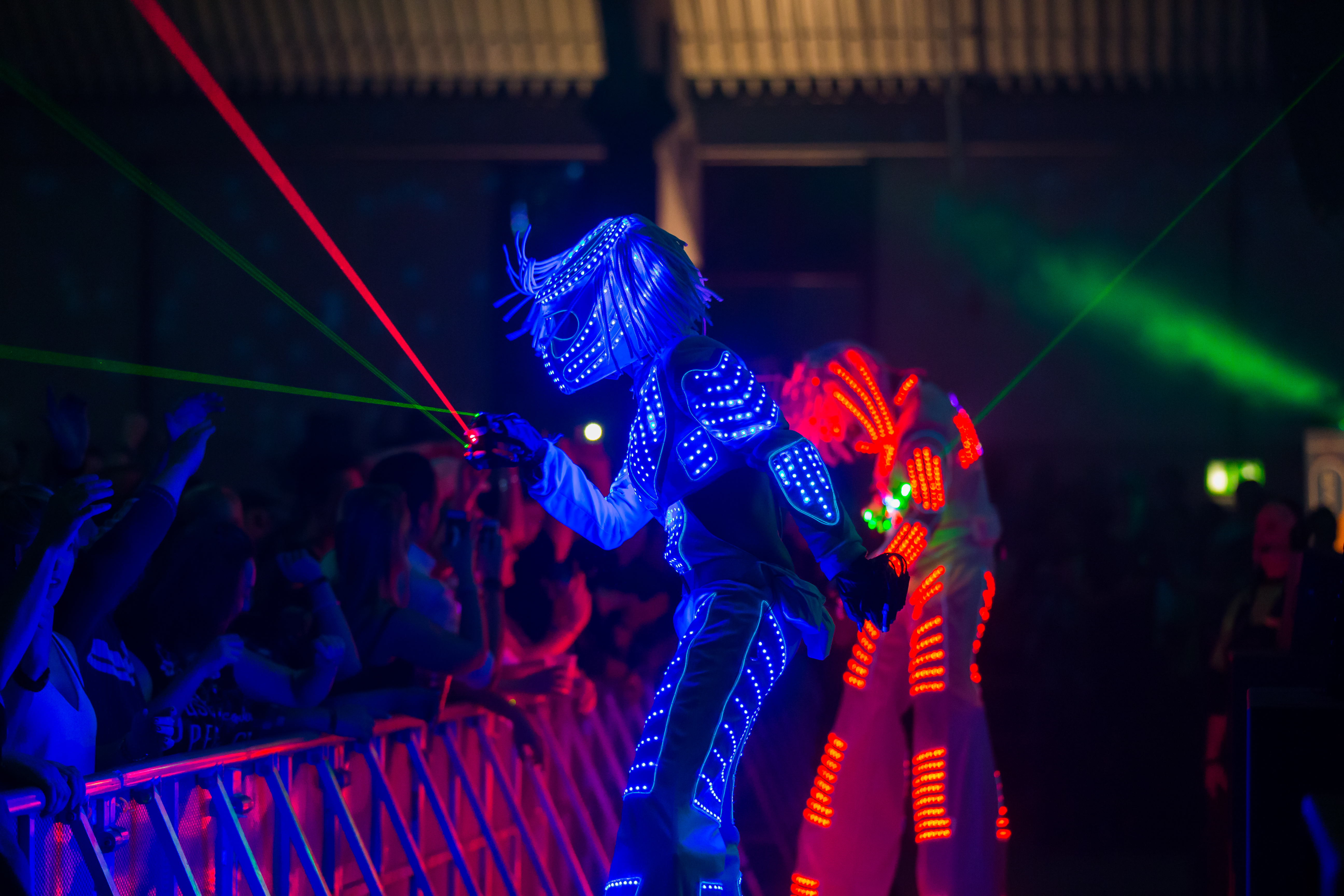 sunshine live "Die 90er - Live On Stage" Maimarkthalle Mannheim DJ Falk, Magic Affair, Captain Hollywood Project, Haddaway, Masterboy, 2 Unlimited, Marusha, Charly Lownoise